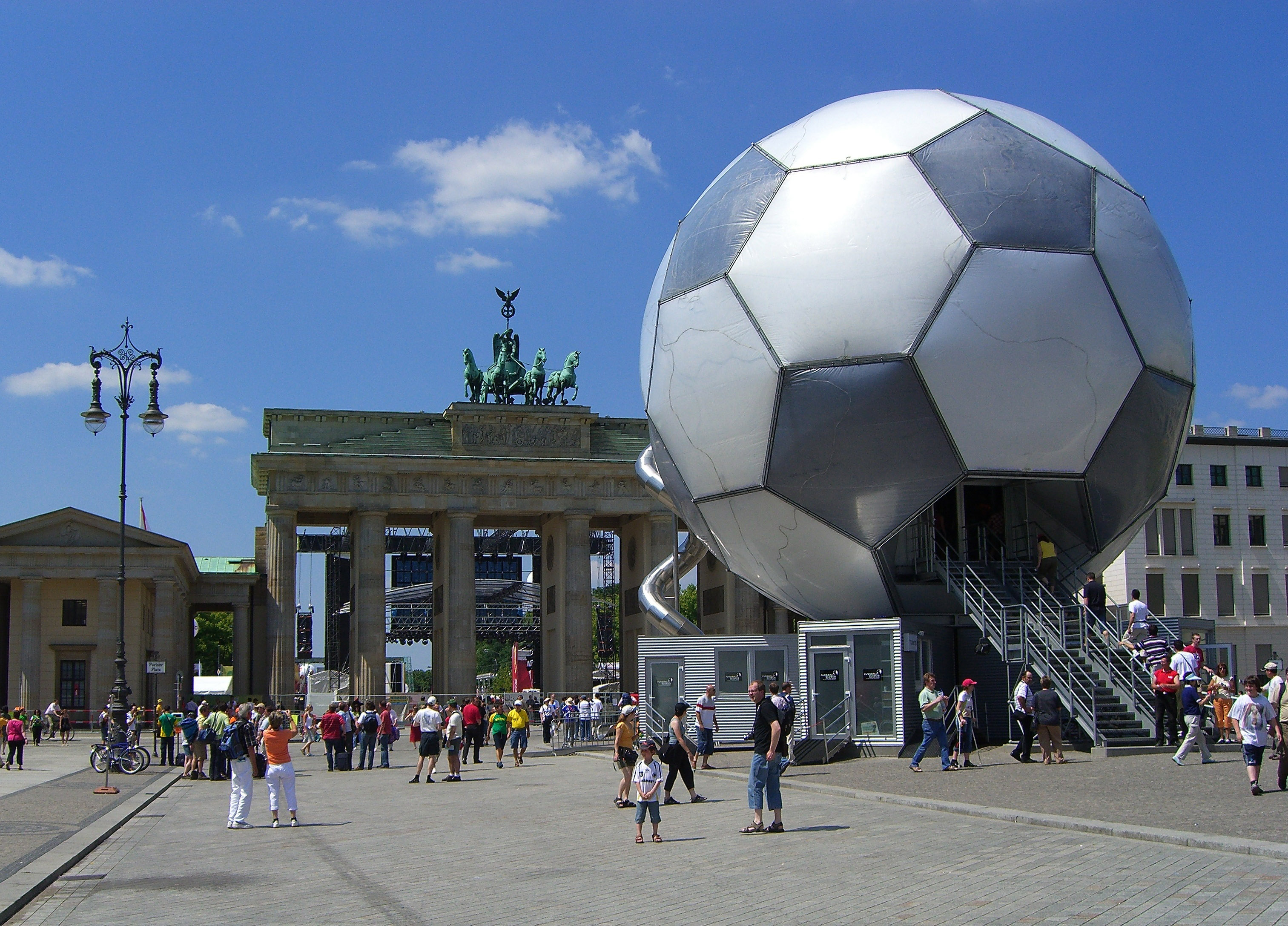 Football globe in Berlin